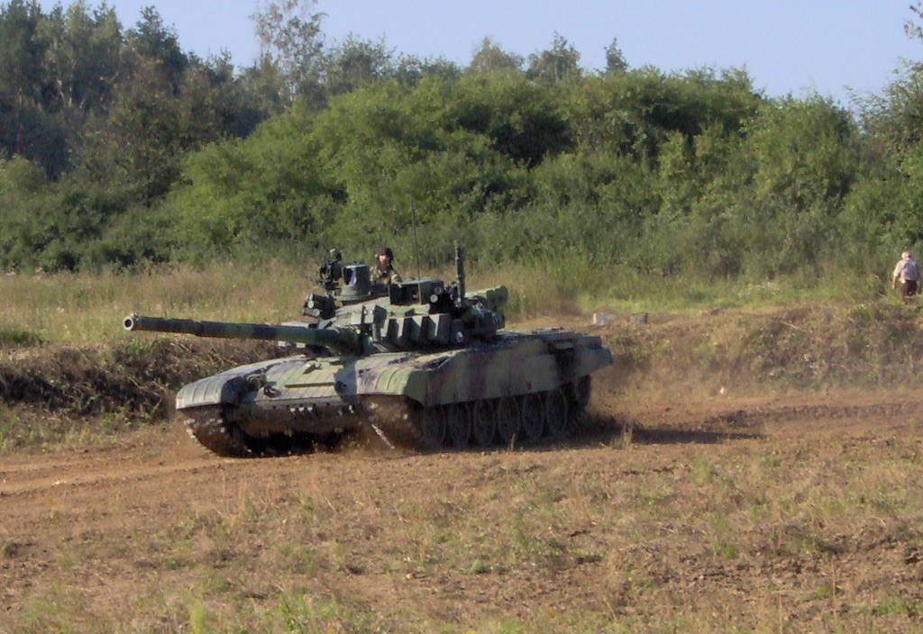 T72M4 CZ MODERNA — Czech modernization of a Soviet tank